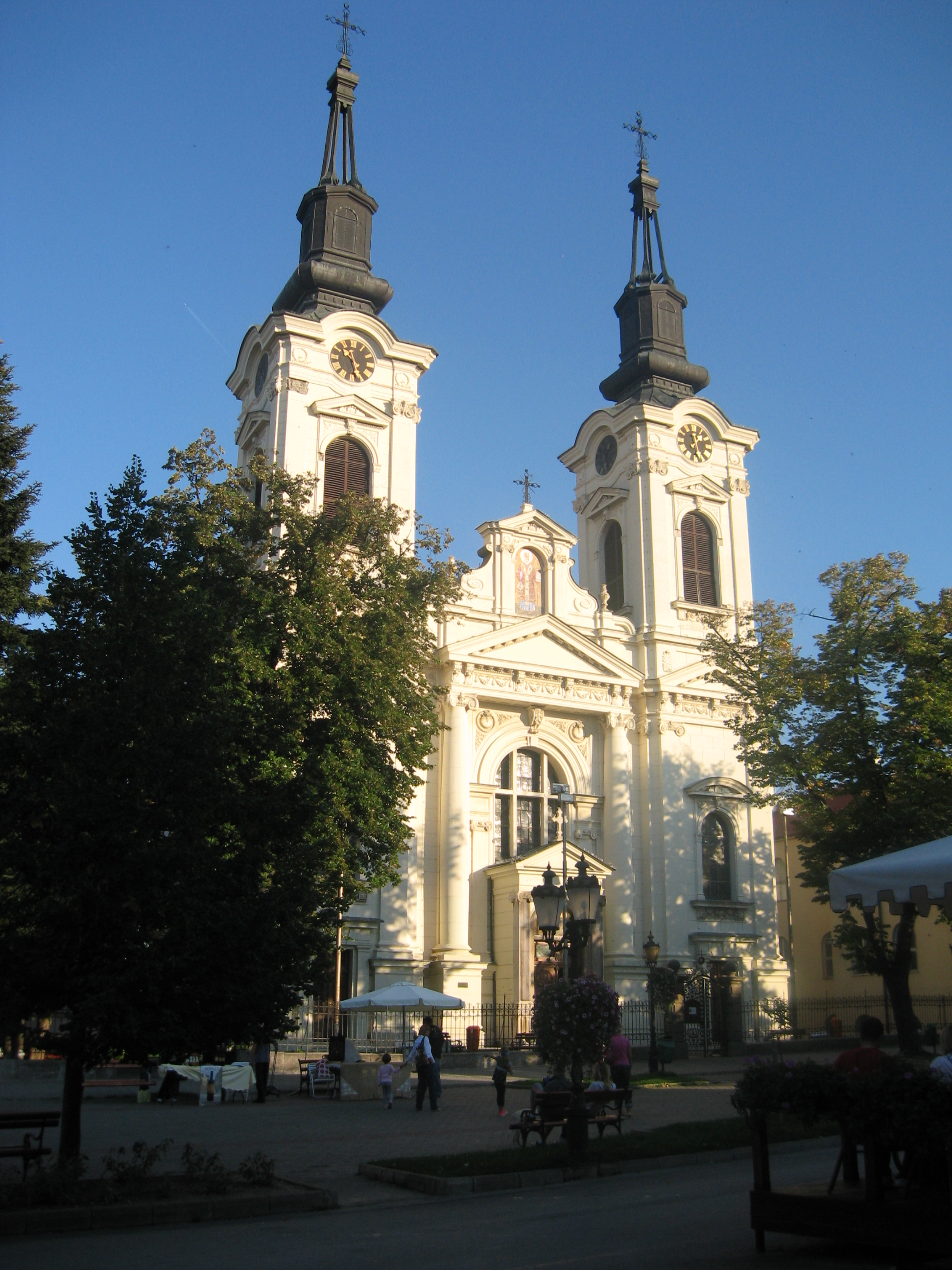 Sremski Karlovci Cathedral of Serbian Orthodox Church